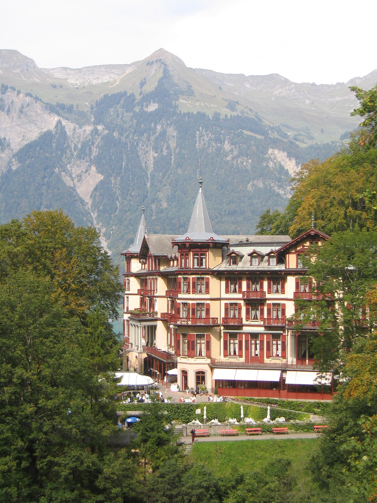 Grand Hotel Giessbach above Lake Brienz